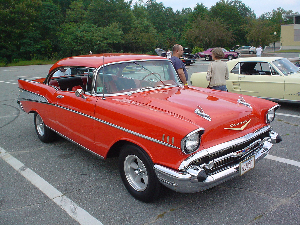 picture of a chevy 57